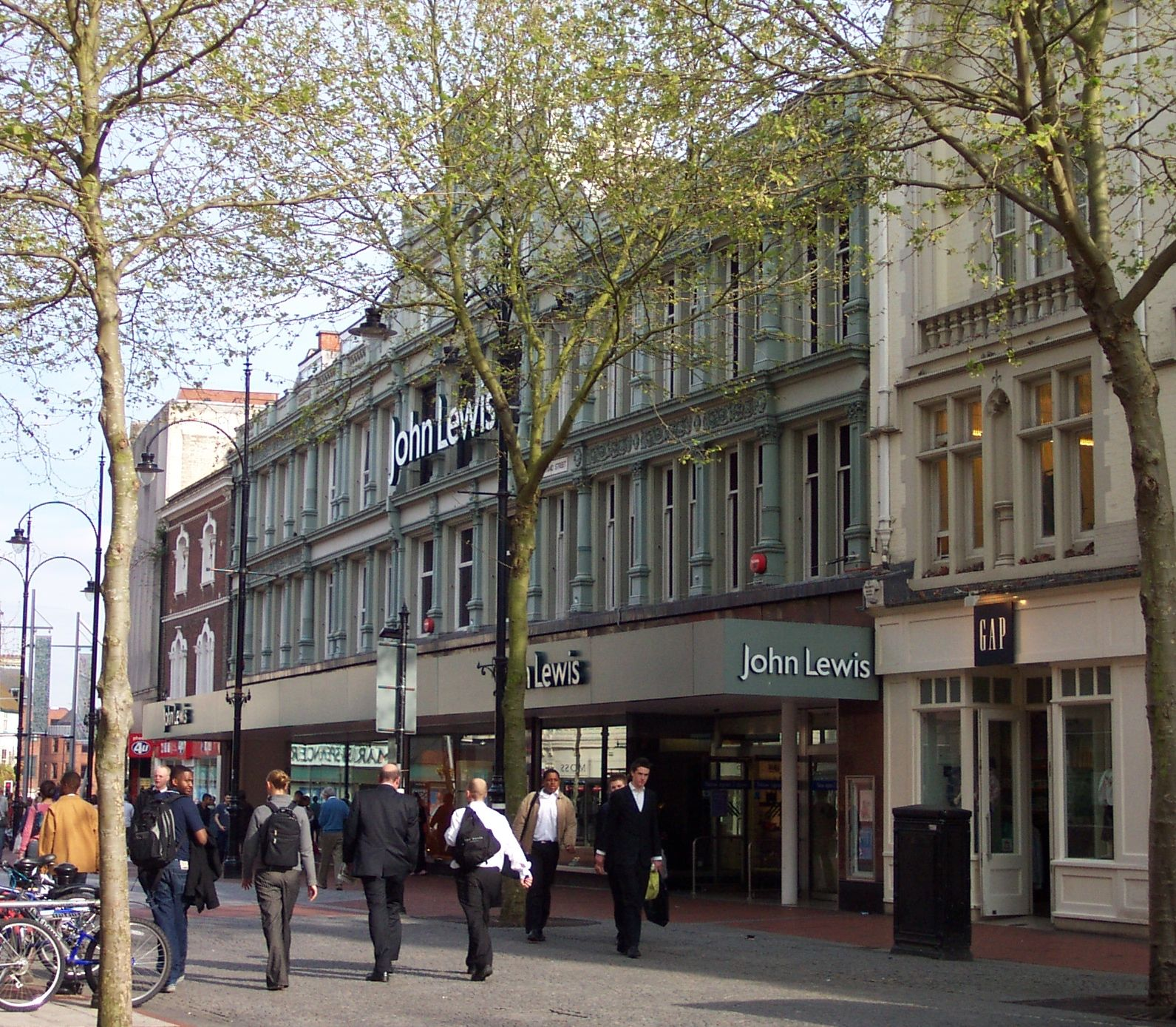 The front elevation of the John Lewis department store in Reading's Broad Street. For more information, see the wikipedia articles John Lewis Reading and Broad Street, Reading.